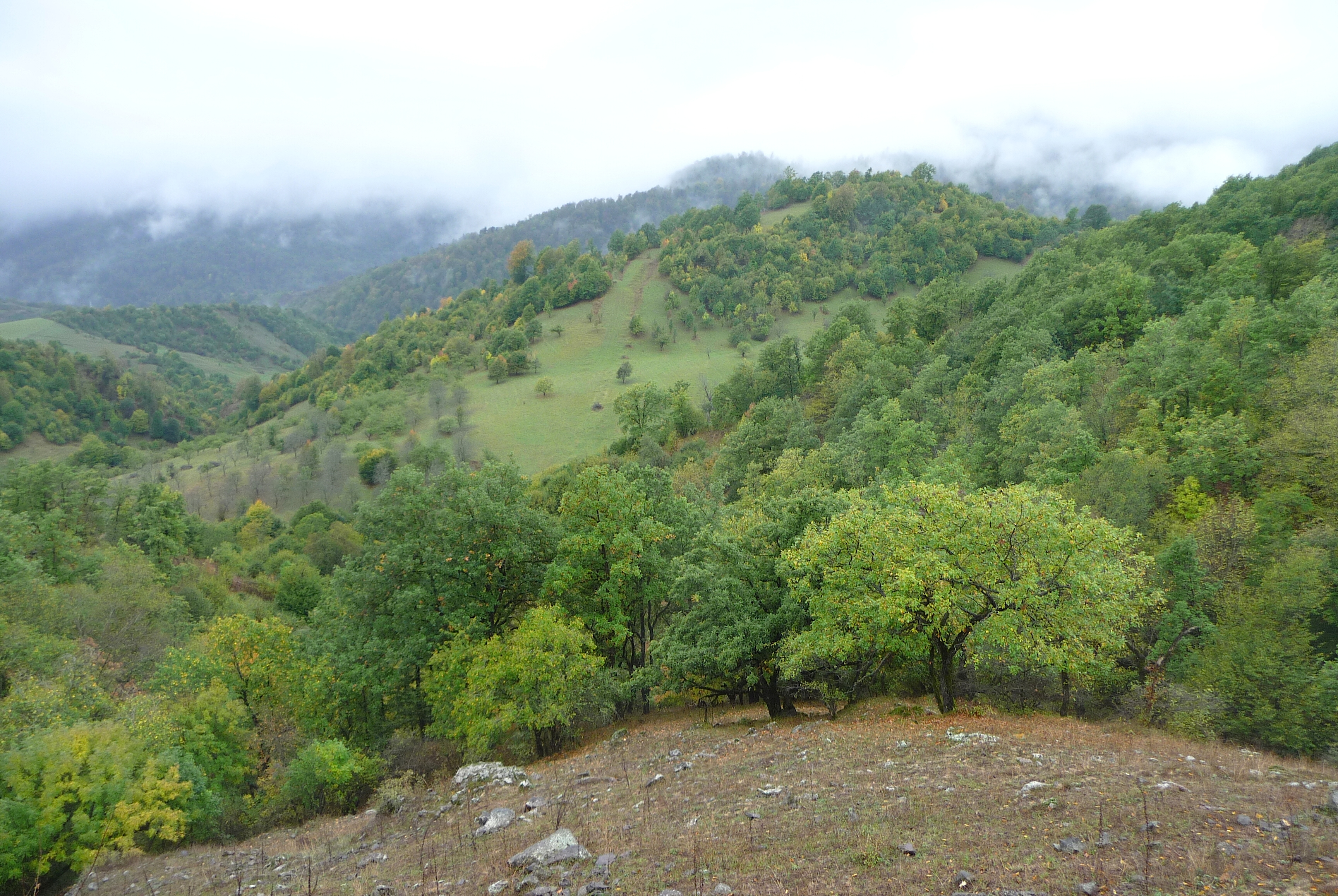 Hills and forests near Dilijan (Tavush, Armenia).